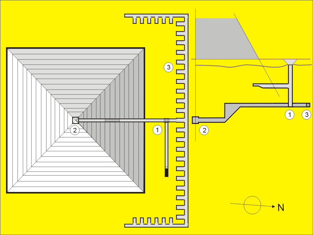 Layer Pyramid of Khaba located at Zawijet el-Arian